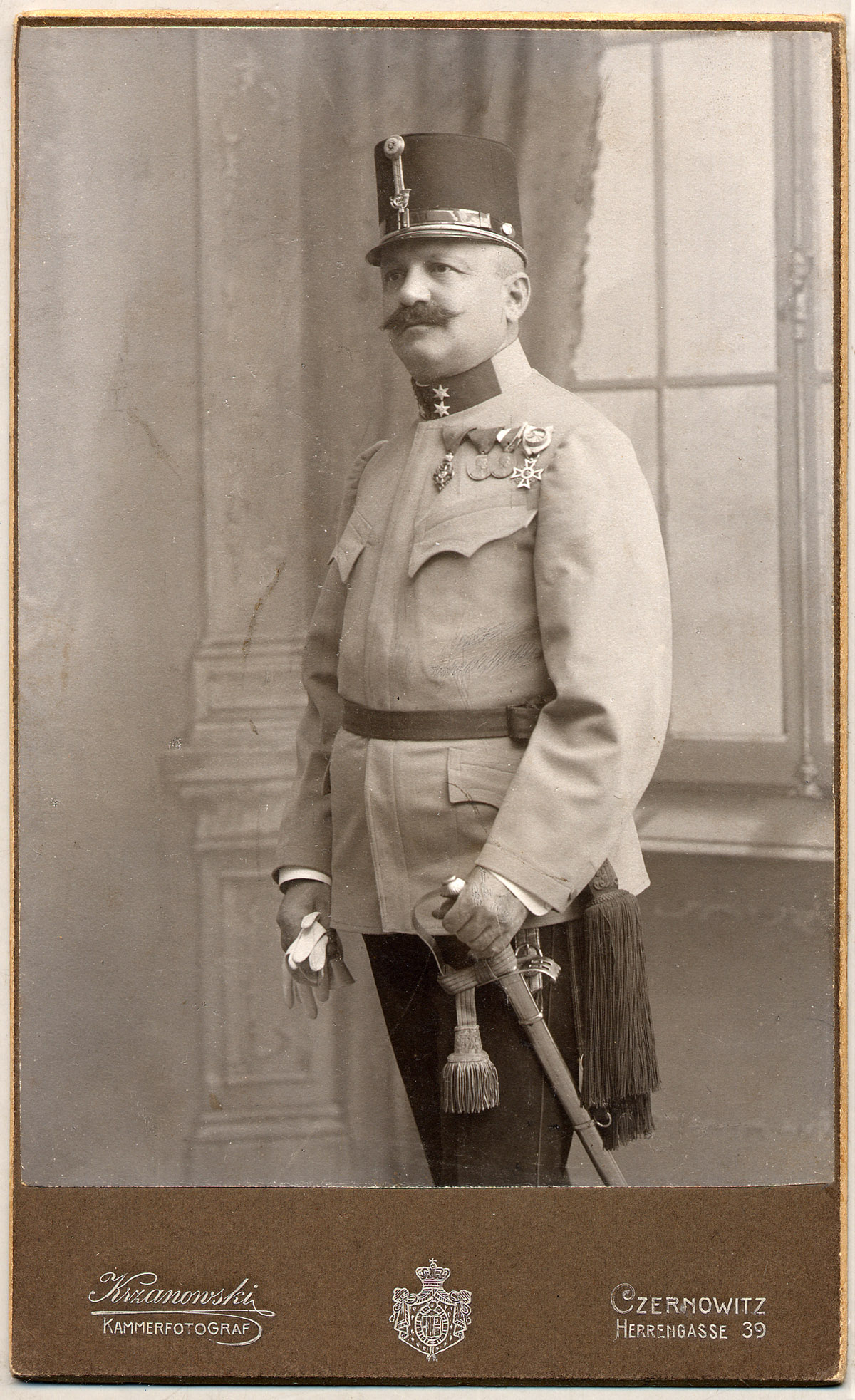 Dr. Anton Norst, journalist from Czernowitz